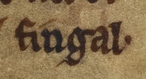 An excerpt from folio 32v of Cotton MS Julius A VII (the Chronicle of Mann). The excerpt reads in Latin "Fingal". The excerpt concerns Fingal mac Gofraid, King of the Isles.